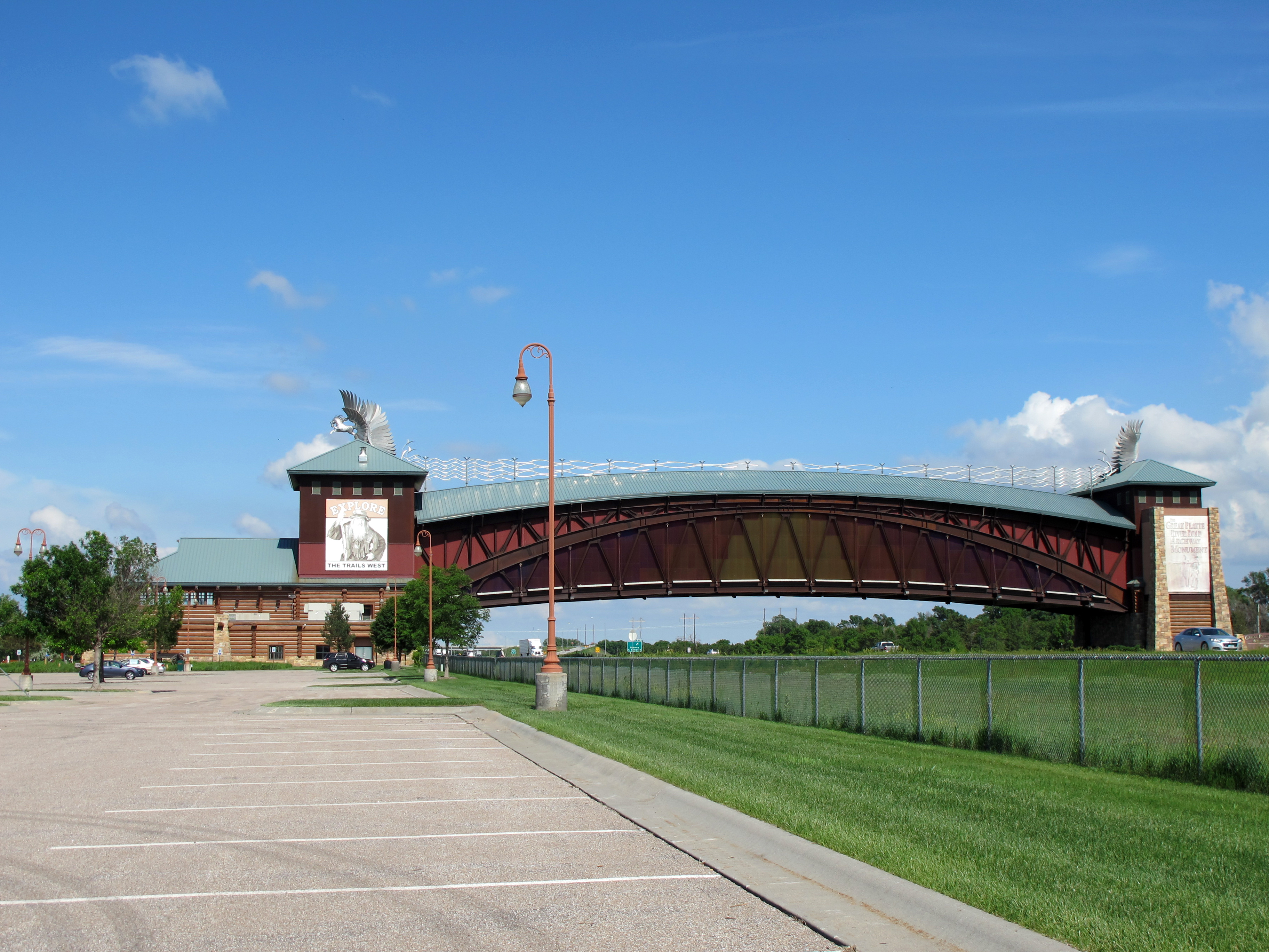 Photo of the Great Platte River Road Archway Monument; as seen from the parking lot to the west (south of E. 1st Street) in Kearney, Nebraska. Photo is looking east-southeast towards the west side of the archway. Interstate 80 can be seen just above the fence line from the bottom-left of center to the bottom right of this photo.